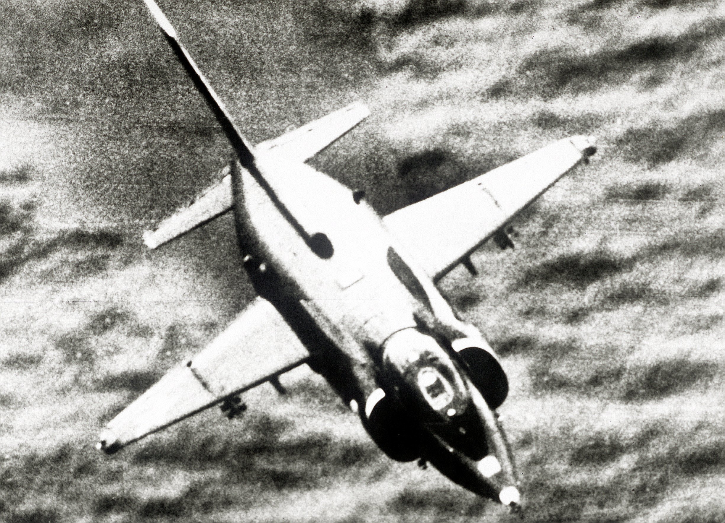 A Soviet Yak-38 "Forger" aircraft in flight.